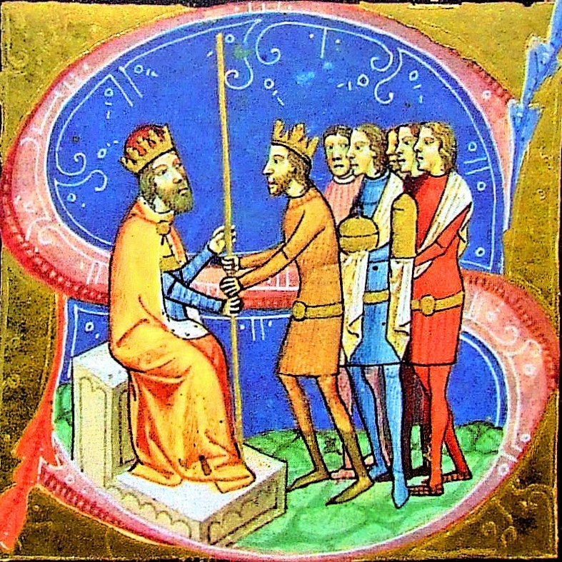 Peter of Hungary and Henry III, Holy Roman Emperor